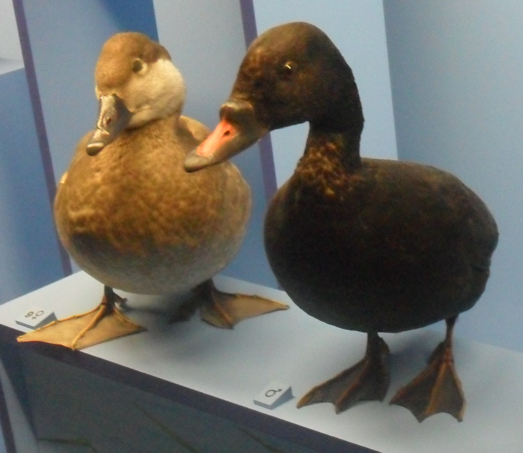 Common Scoters (Melanitta nigra) : a male and a female